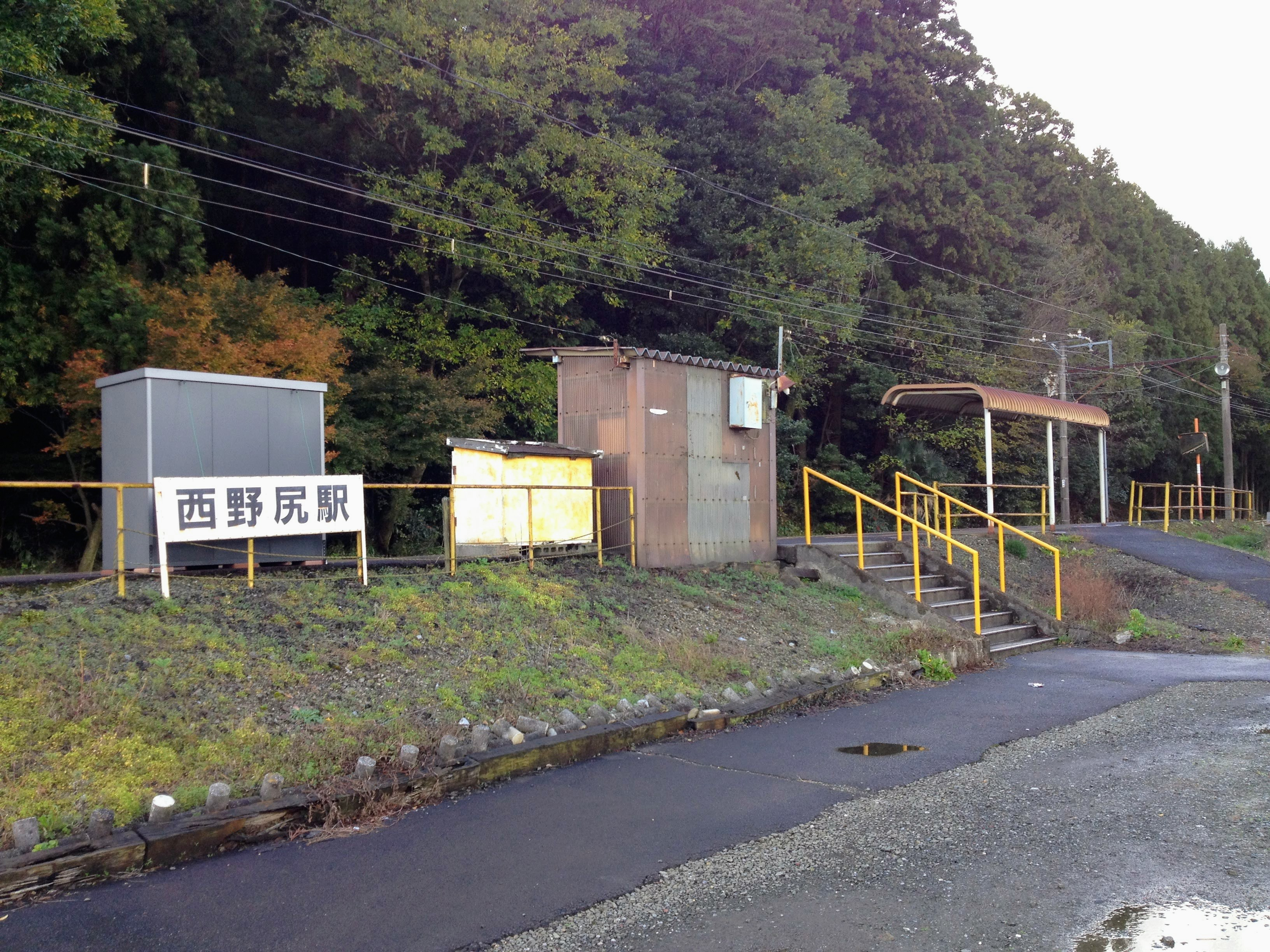 Nishi-Nojiri station in Inabe, Mie prefecture, Japan